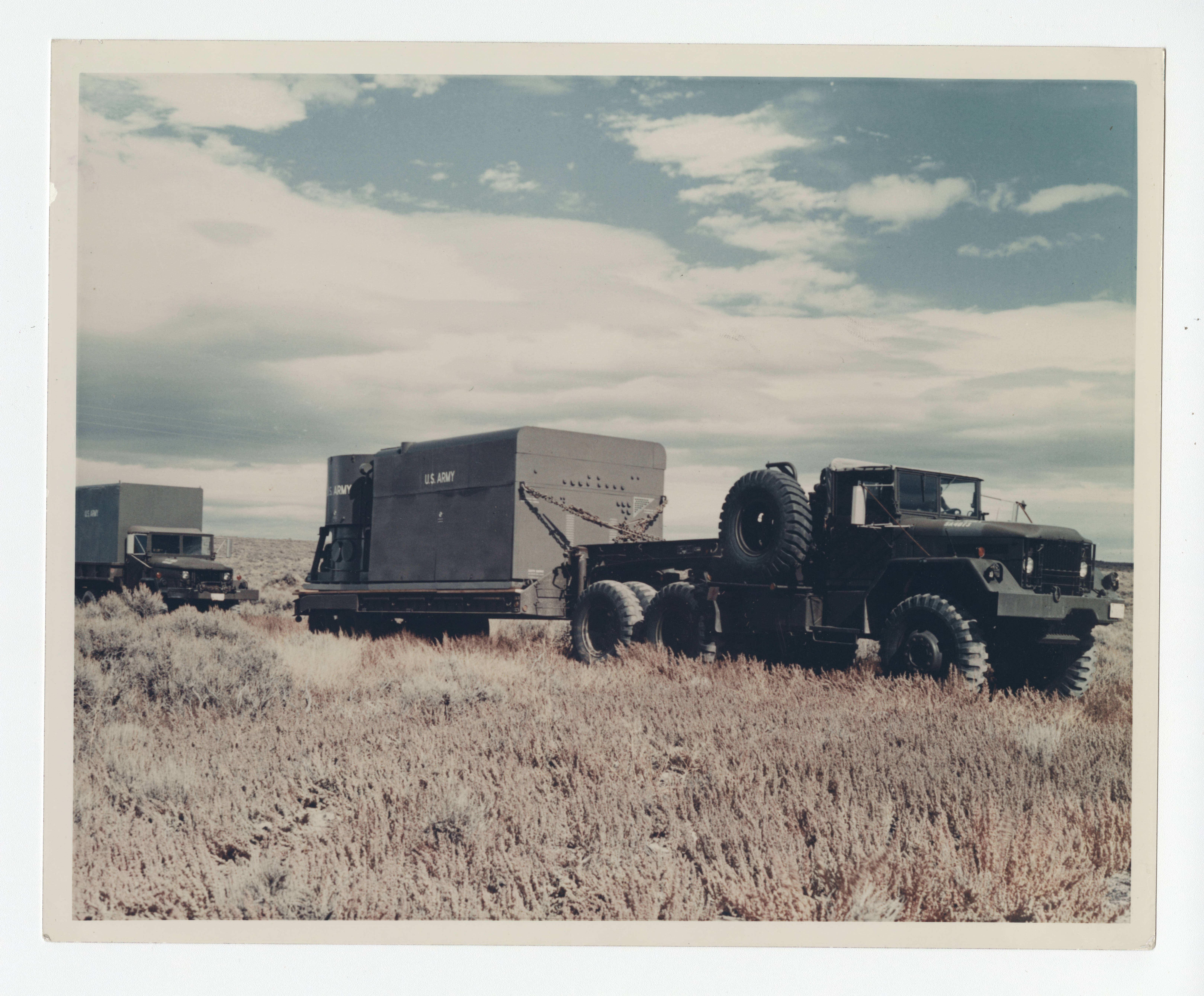 This is a photo of a full-scale mockup of the truck-mounted ML-1 nuclear power plant developed by the US Army as part of the Army Nuclear Power Program. It is driving on the grounds of the National Reactor Testing Station near Idaho Fall, ID.